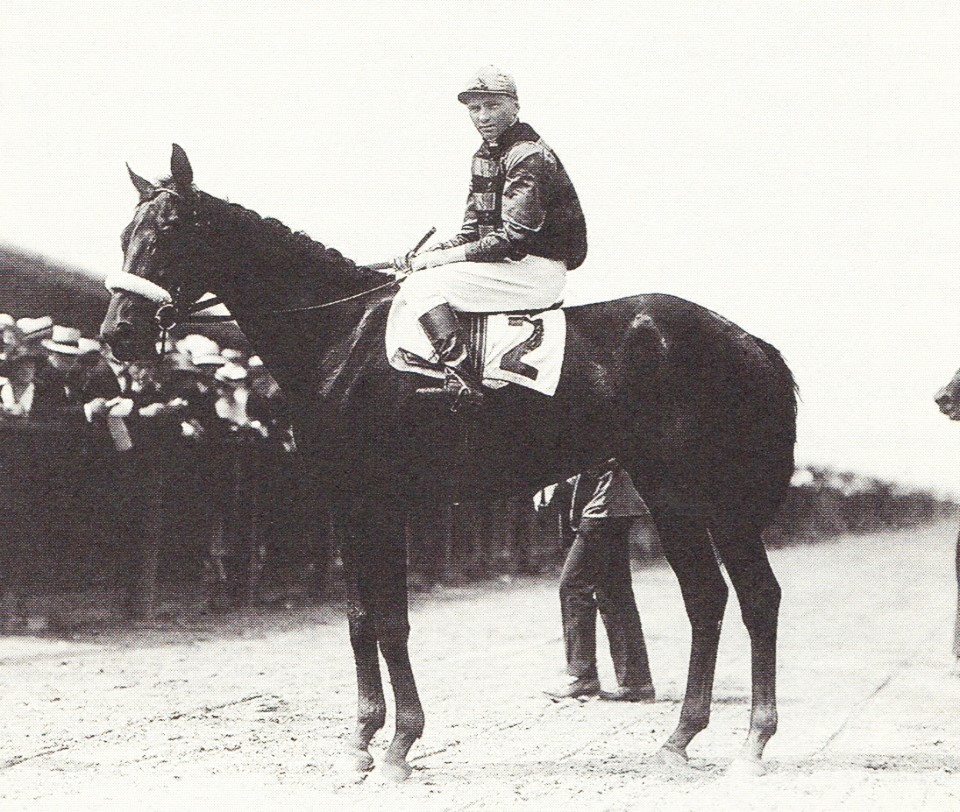 Billy Kelly with jockey earl sande, circa 1919